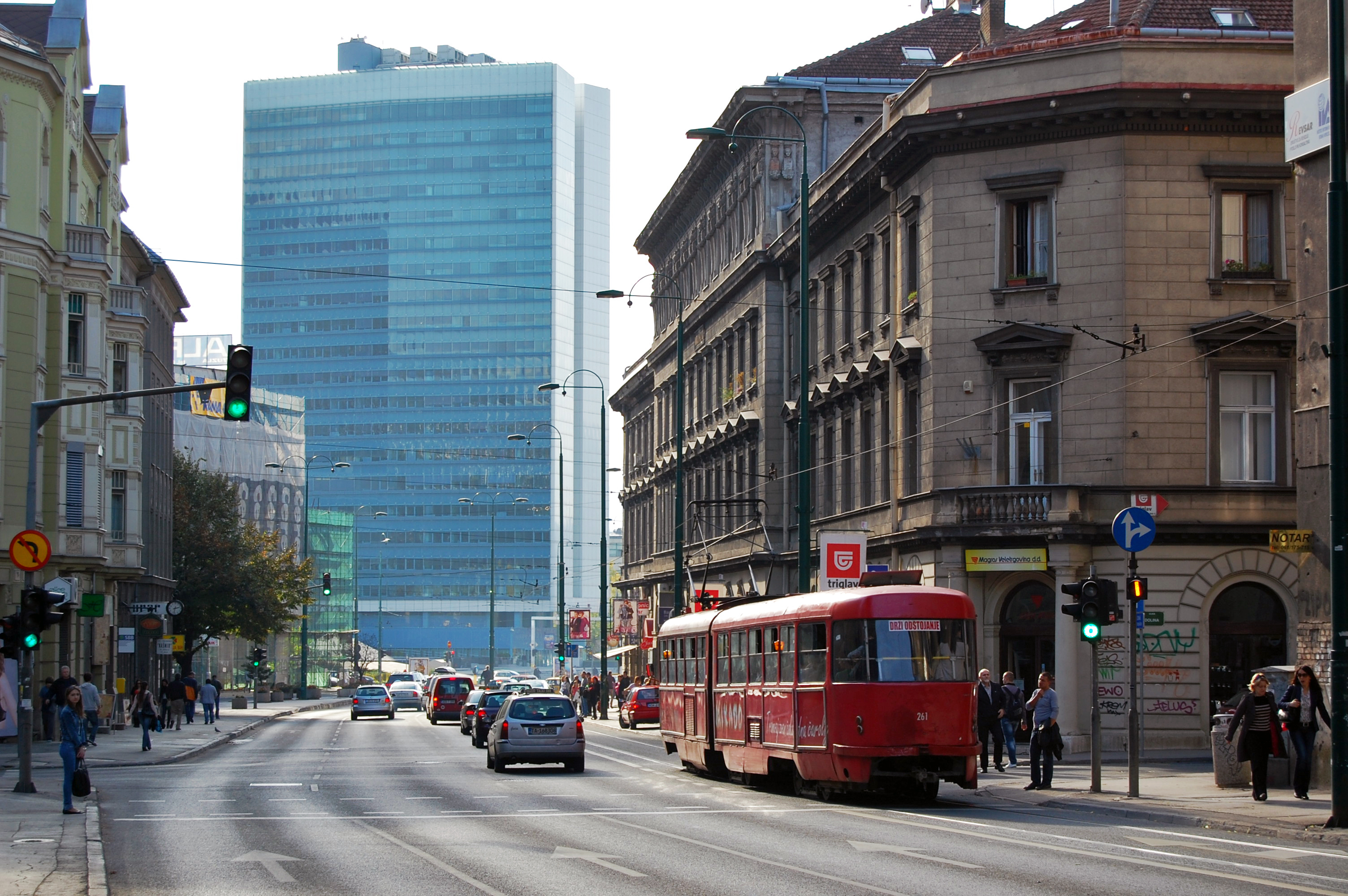 Tram #261 at Marijin Dvor, Line #3, October 14, 2013